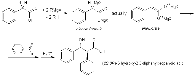 Structure of Ivanov reagents and scheme of Ivanov reaction